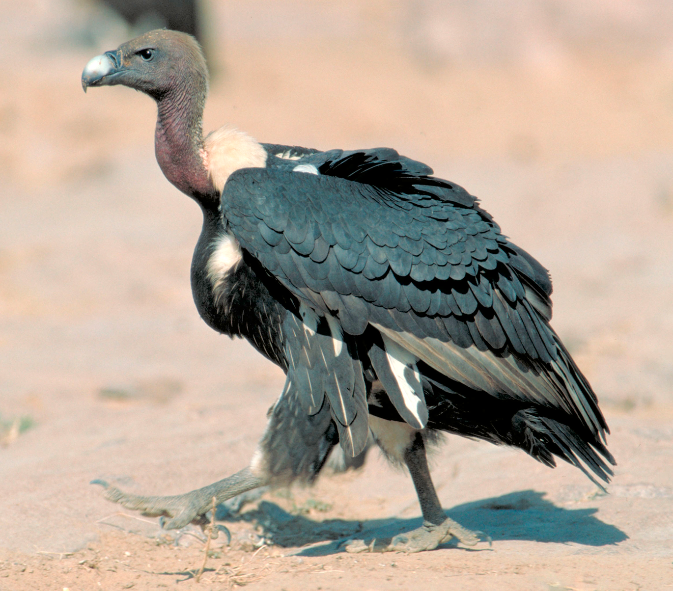 Tens of millions of Asian vultures–including the oriental whitebacked vulture (Gyps bengalensis) , above–have vanished from the Indian subcontinent since the early 1990s.